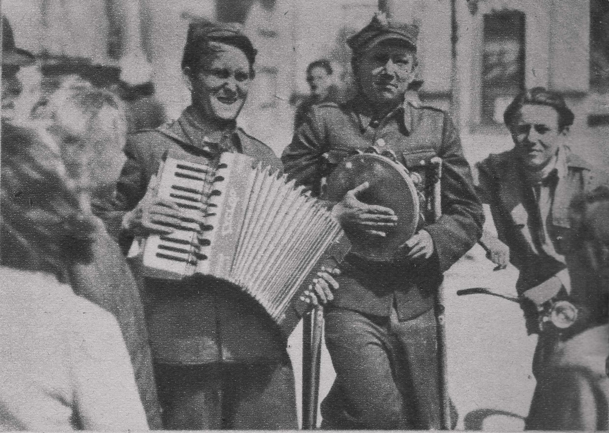 Making of Zakazane Piosenki (Forbidden Songs) movie, shot in 1946 in ruined Warsaw. Scene with Czesław Piaskowski (left) and Leon Pietraszkiewicz (middle).